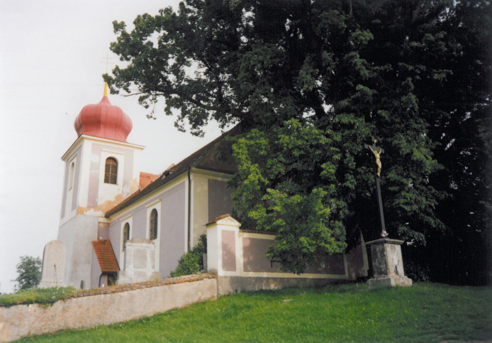 Buková - St.George Church